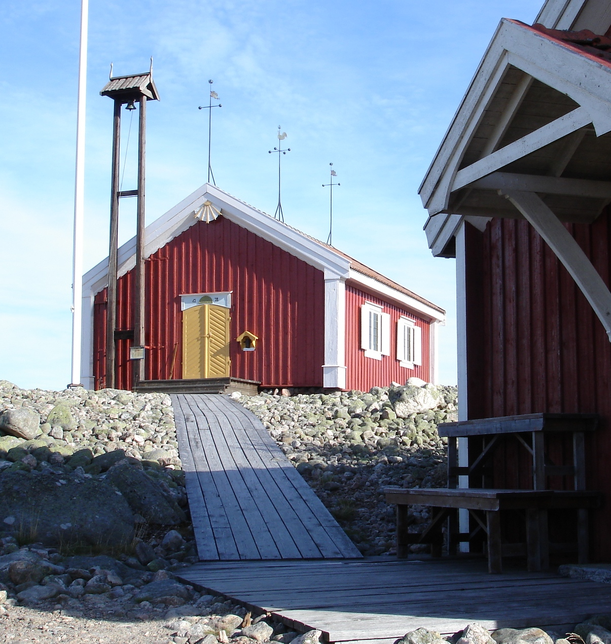 Kuggörarnas kapell i Hälsingland i september 2009.